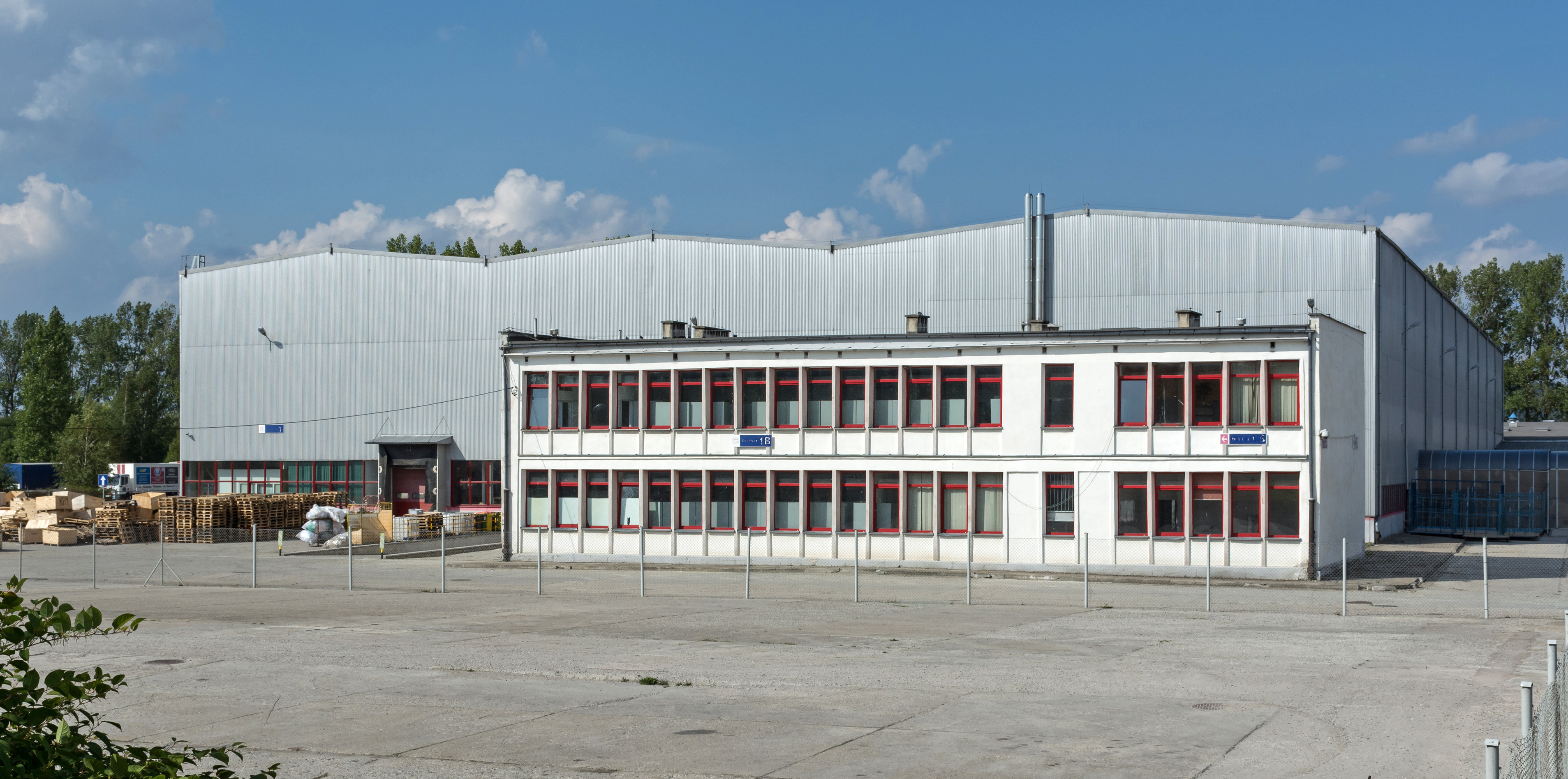 Steinhoff KPM Meble Kłodzko plant